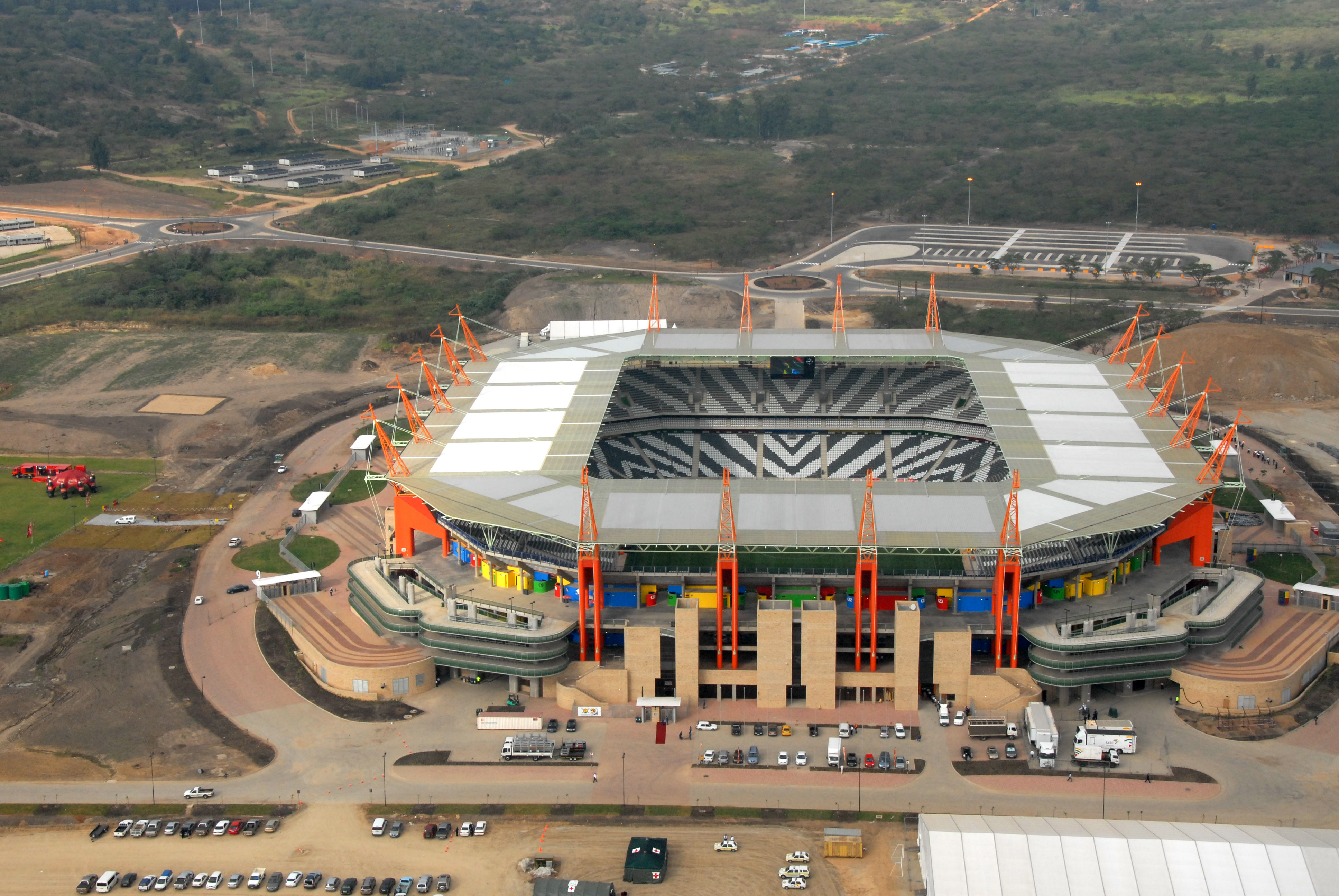 Aerial View Mbombela Stadium 1 month before World Cup